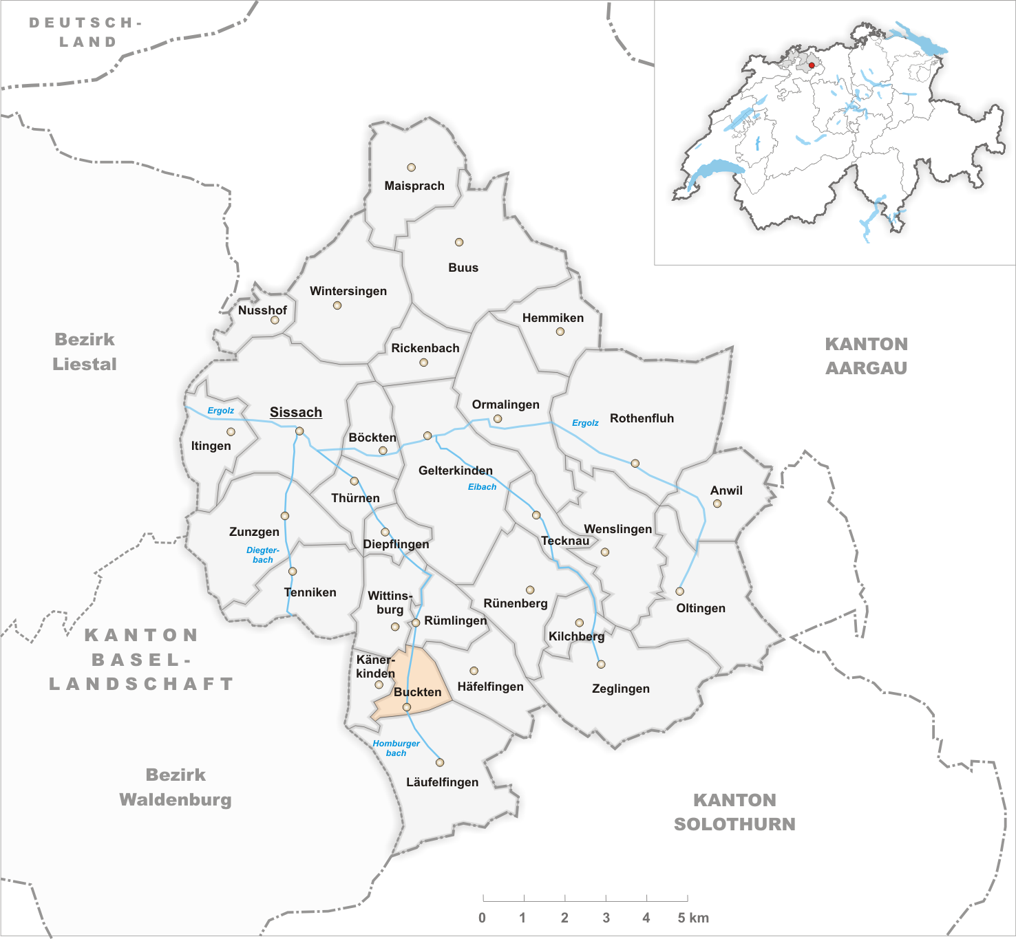 Municipality Buckten